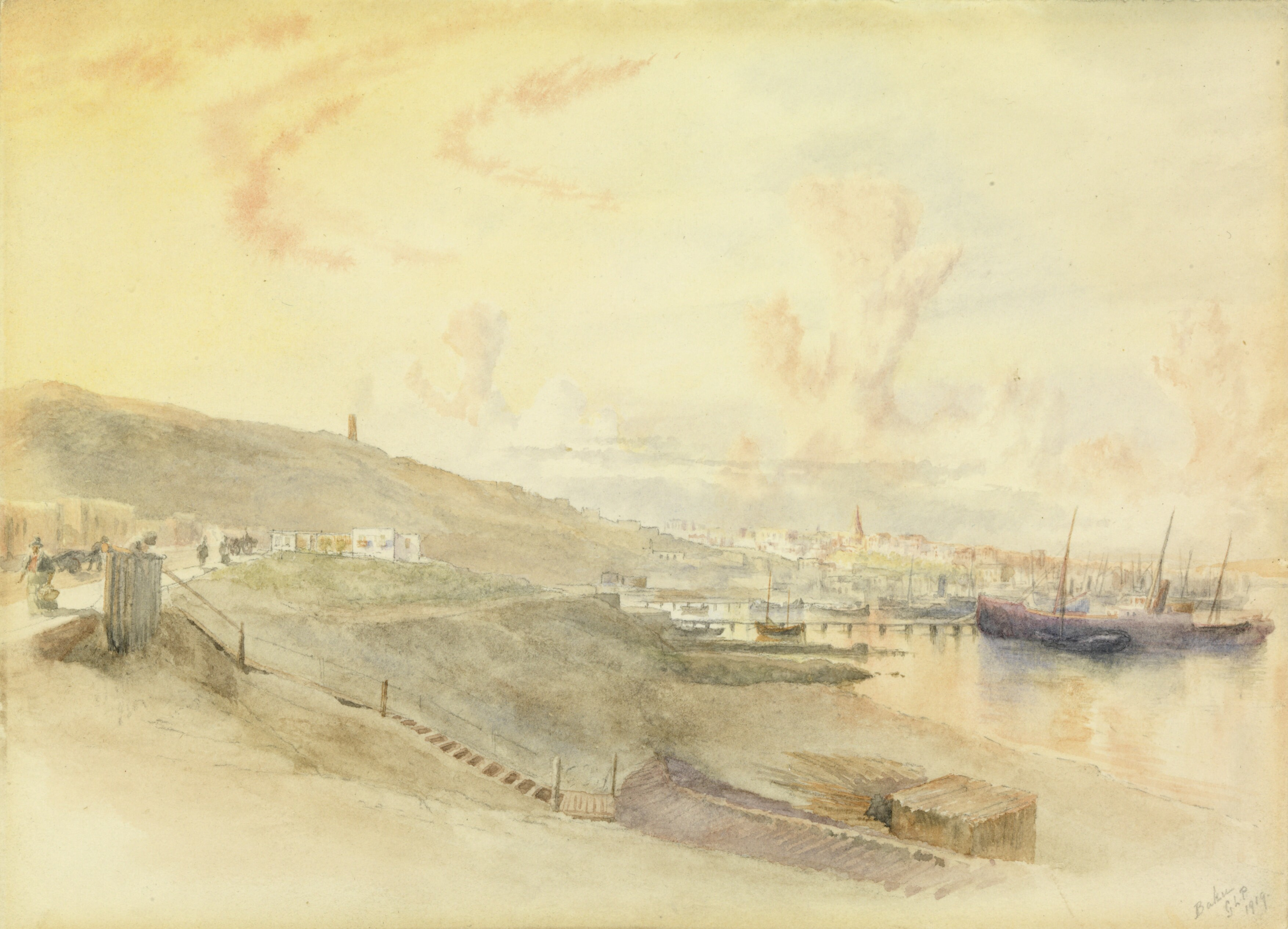 Baku, 1919 - the main base of the British Caspian Fleet during the naval campaign on that inland sea, 1918-1919 image: landscape view of a bay and port, with dramatic sky above. In the foreground, a wooden trackway leads from a road down to a shoreline with flimsy structures, while behind larger ships are docked at piers; beyond this are the buildings of a town in the distance.